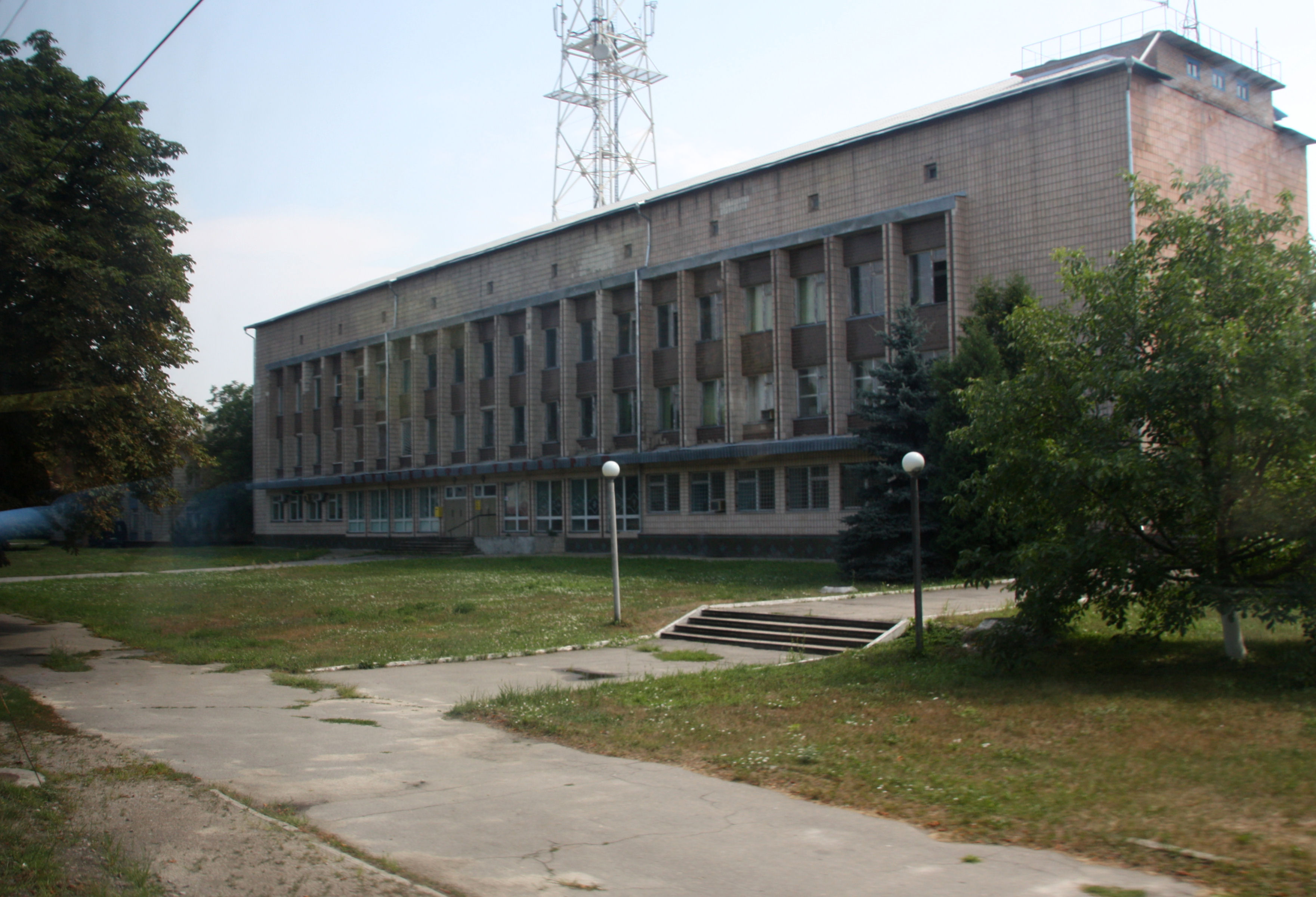 The Chernobyl municipal government building, Juli 2010